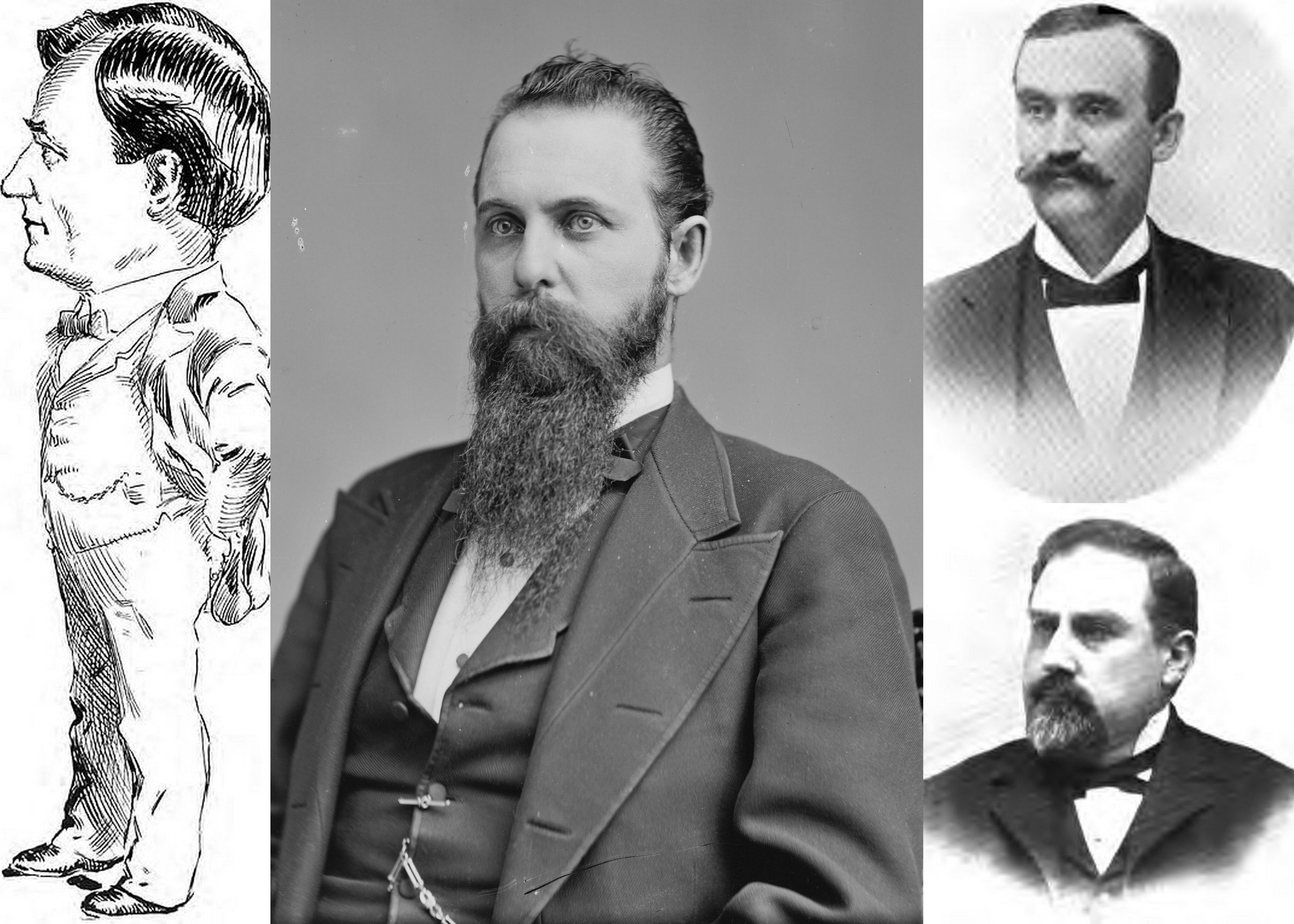 John Hicklin Hall, John H. Mitchell. Library of Congress description: "Mitchell, Hon. John Hipple of Oregon". Congressman John N. Williamson, Binger Hermann all key players in the Oregon land fraud scandal, collage of the four.